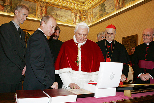 VATICAN. With Pope Benedict XVI.